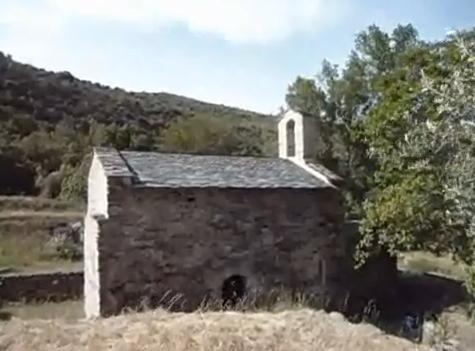 Church of Sant Nazari de Barbadell (Bouleternère, Pyrénées-Orientales, France)